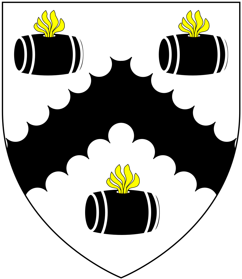 Arms of Incledon family of Incledon and Buckland in the parish of Braunton, North Devon: Argent, a chevron engrailed between three tuns sable fire issuing from the bung hole proper. Per Vivian, Lt.Col. J.L., (Ed.) The Visitation of the County of Devon: Comprising the Heralds' Visitations of 1531, 1564 & 1620, Exeter, 1895, p.497, pedigree of Incledon of Buckland. As visible on various mural monuments to the Incledon and Webber families in St Brannock's Church, Braunton and on the frieze of Queen Anne's Walk (Mercantile Exchange, circa 1708), Barnstaple, Devon.